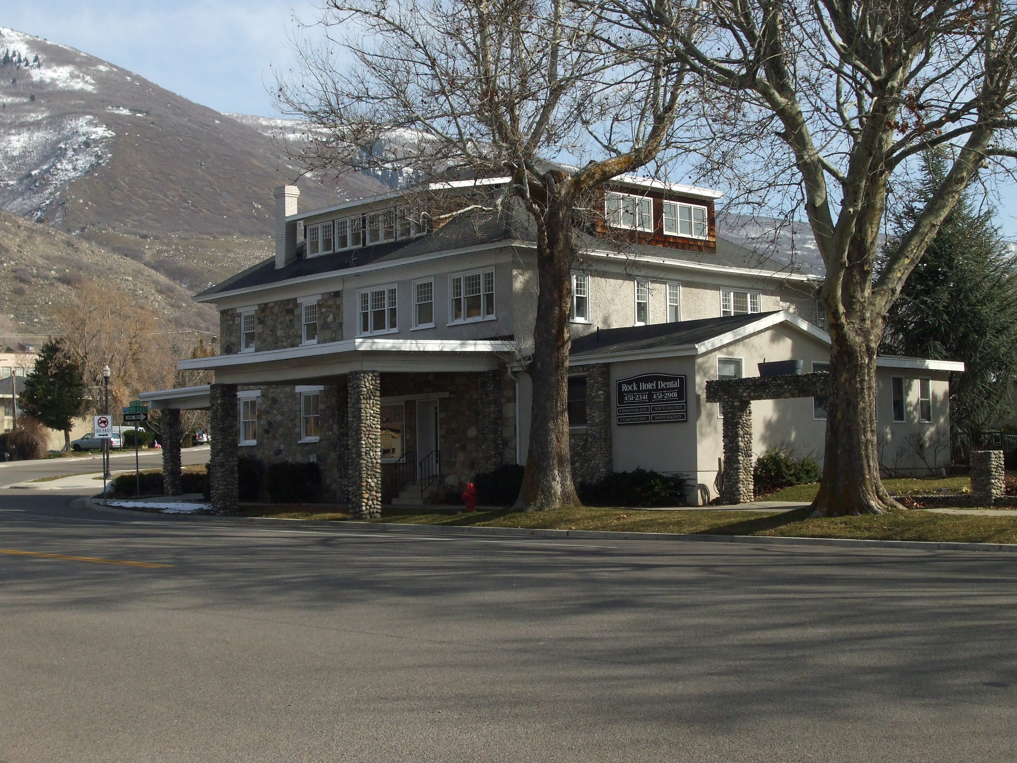 The VanFleet Hotel, a former hotel in Farmington, Utah, United States.